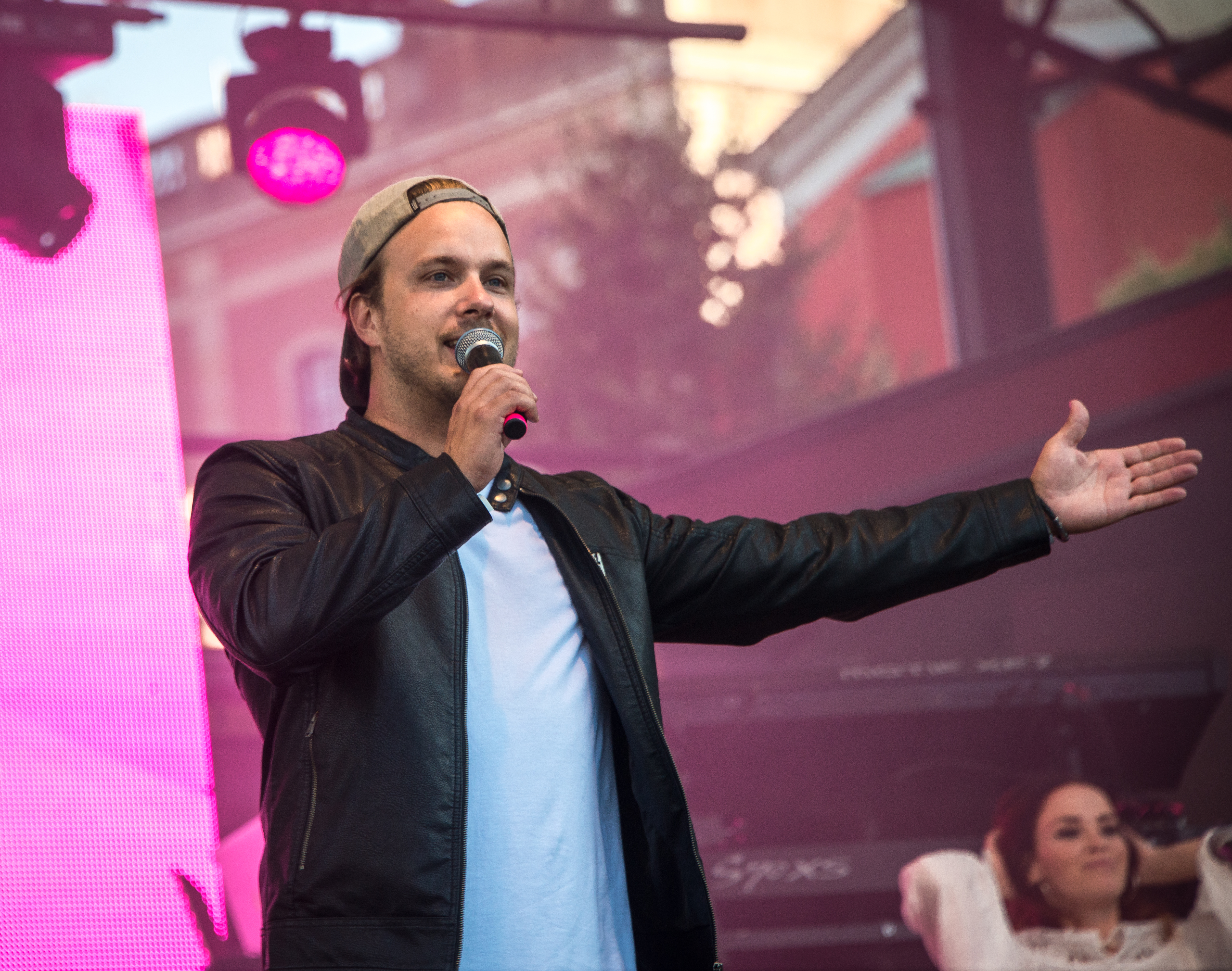 Erik Myrlund during the RIX FM Festival 2016 in Kungsträdgården in Stockholm.